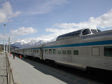 A west bound VIA Rail Canada Canadian service from Vancouver, British Columbia to Toronto, Ontario pauses for an extended stop at Jasper in the Rocky Mountains. Photographed May 2006 by James Brown.